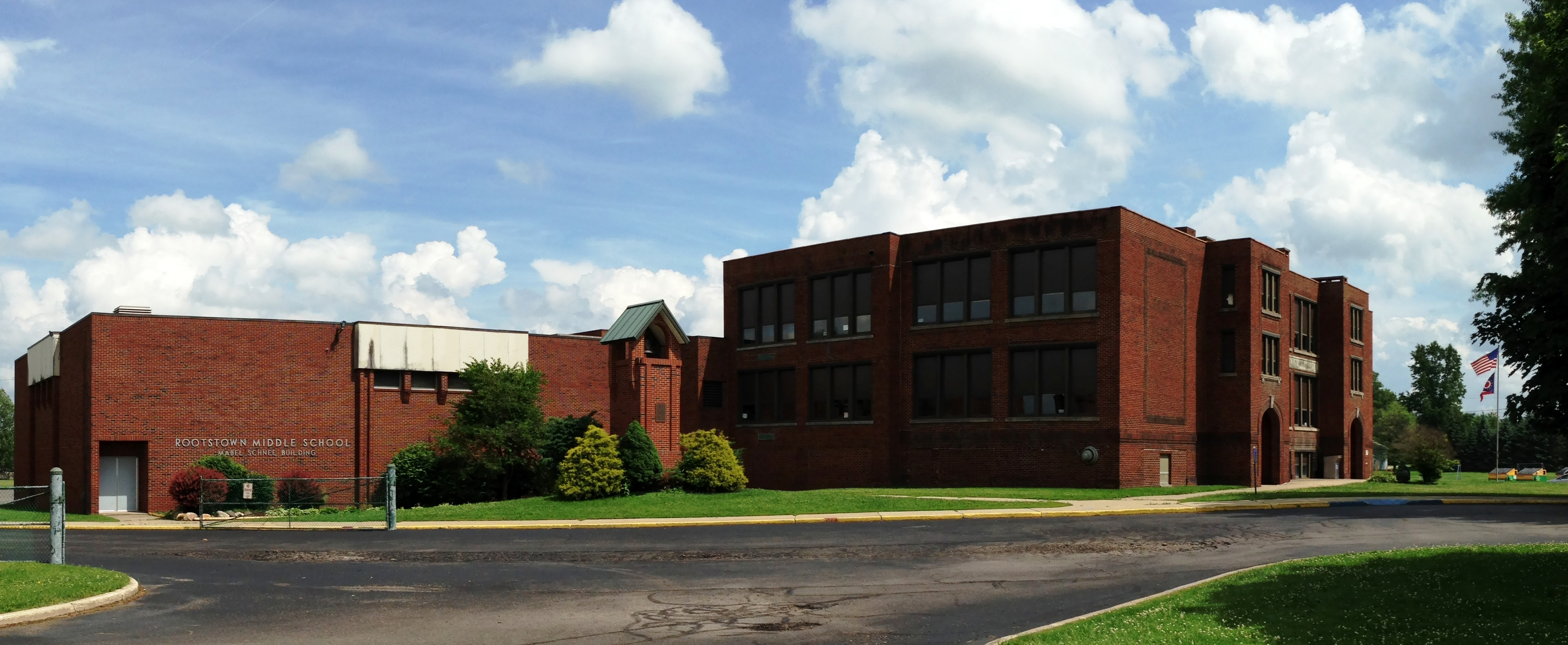 Side view of Rootstown Middle School in Rootstown, Ohio, United States.